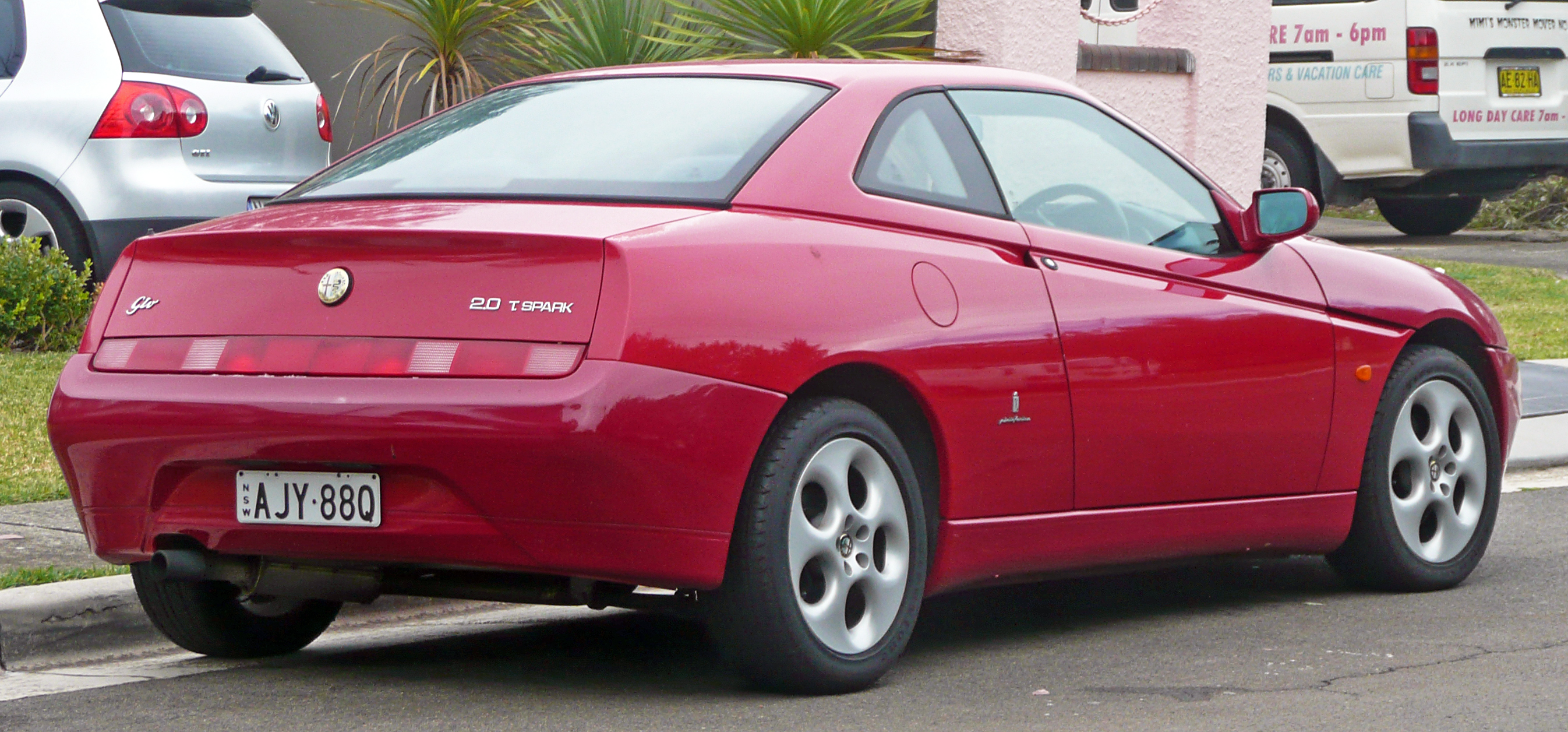 2001 Alfa Romeo GTV Twin Spark coupe. Photographed in Cronulla, New South Wales, Australia.